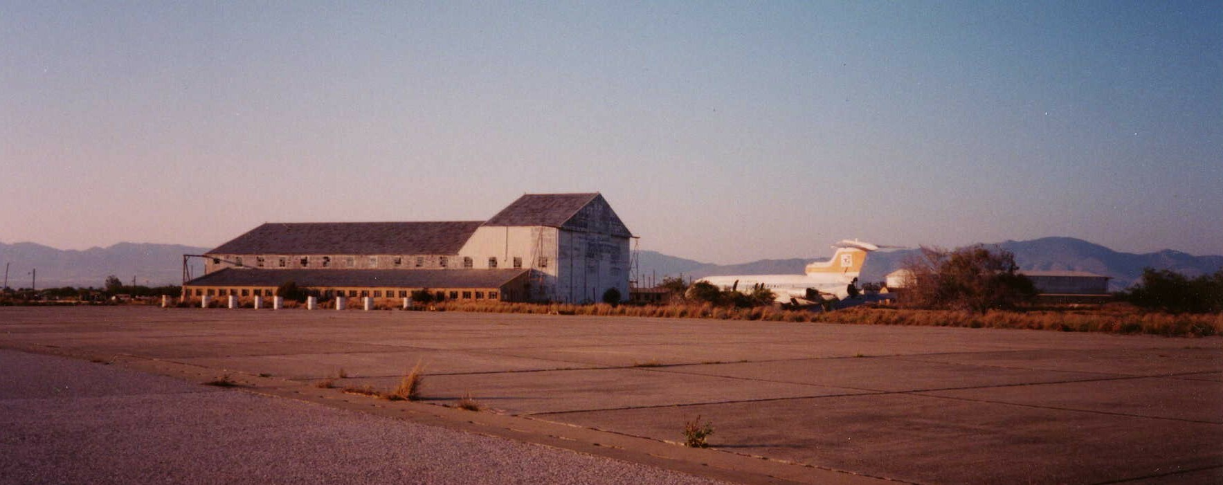 A view of one of the derelict hangars at the closed Nicosia International Airport in the United Nations Buffer Zone in Cyprus, with the abandoned Hawker Siddeley Trident aircraft 5B-DAB visible next to it.